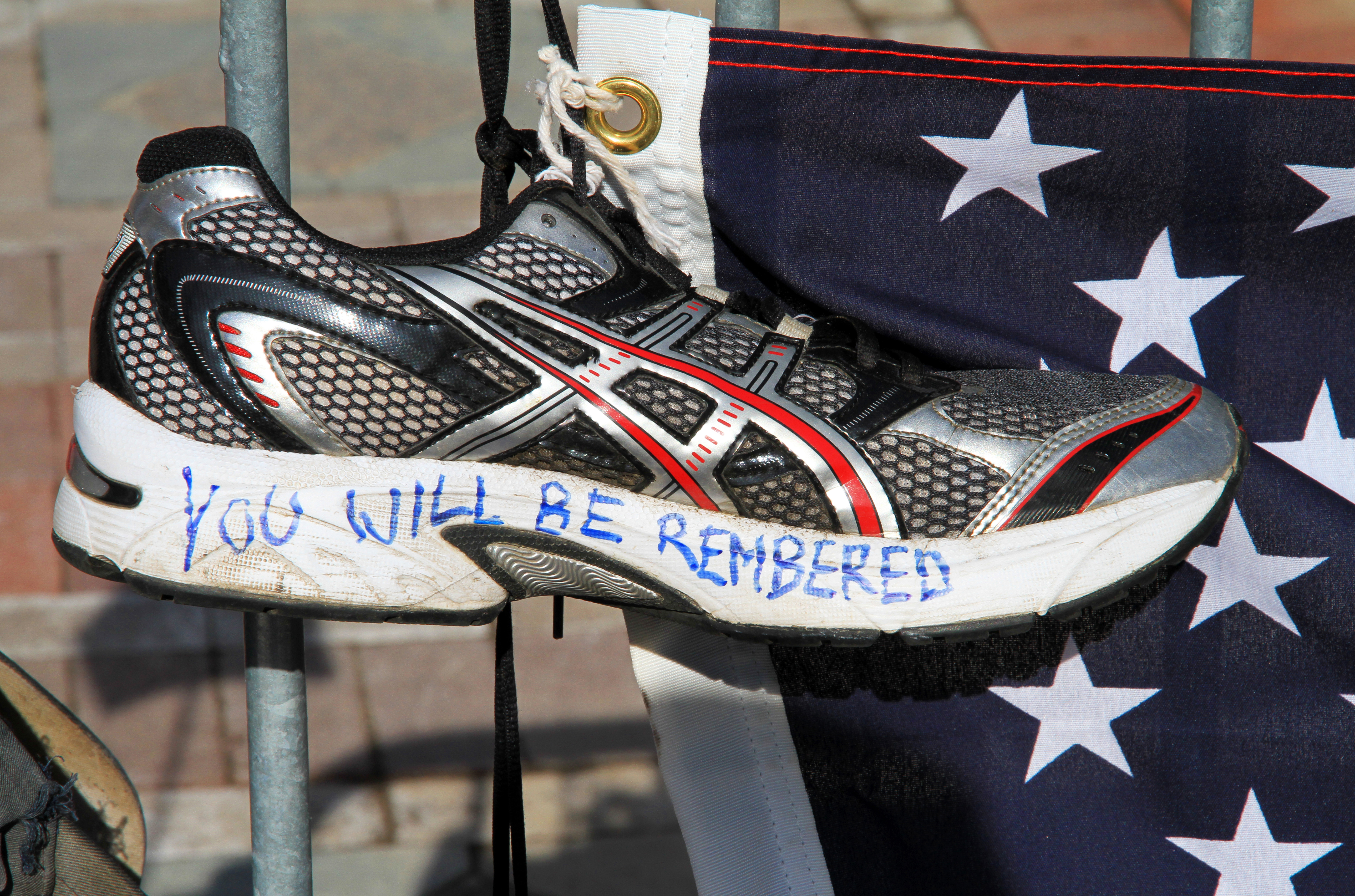 Remembering the victims